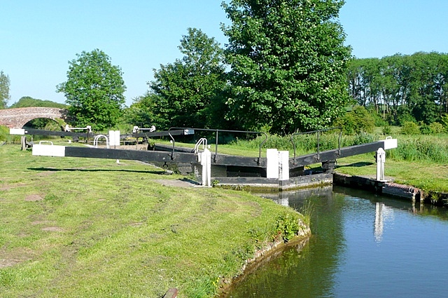 Benham Lock Lock 82, with a fall of 6 feet 3 inches.